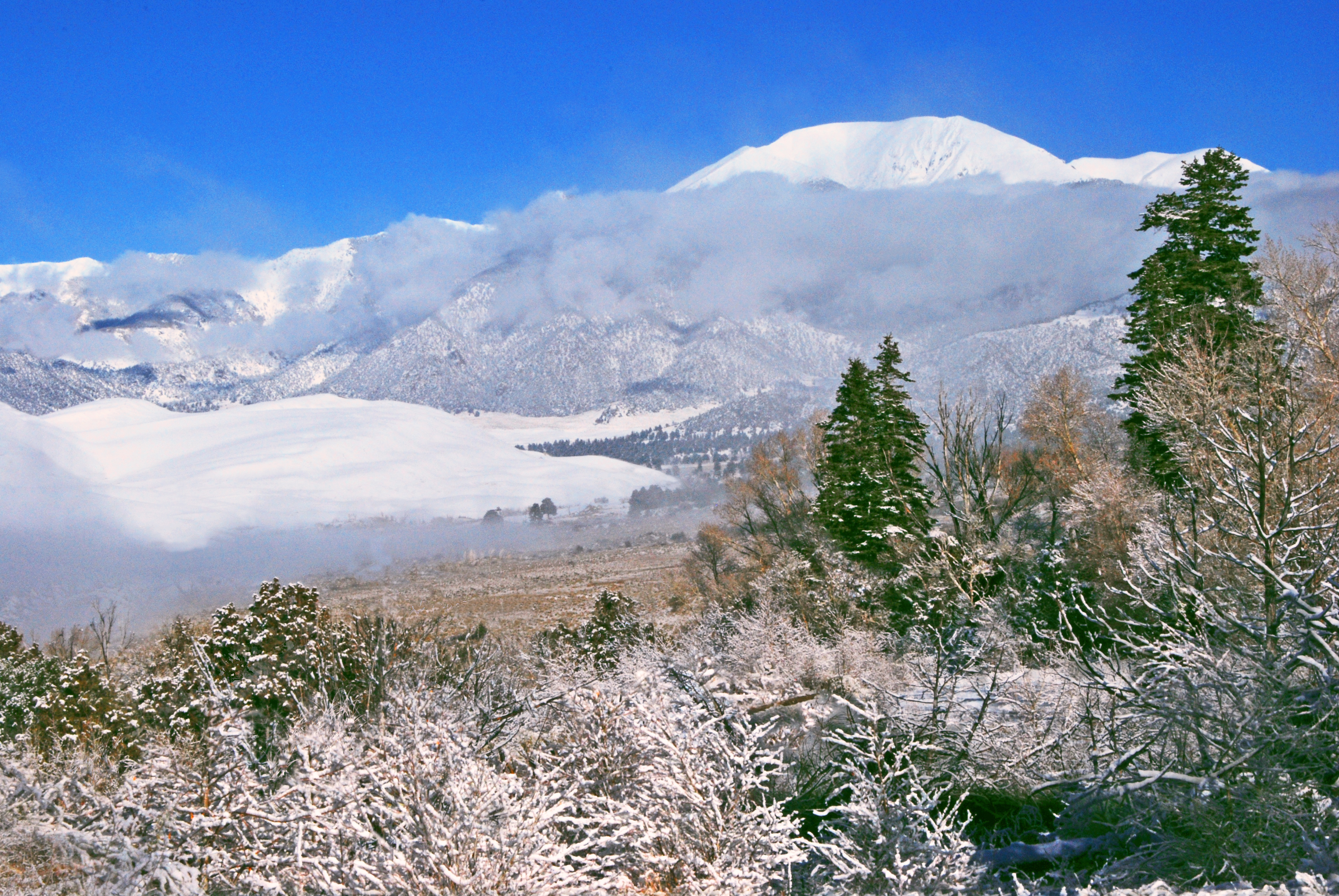 NPS/Patrick Myers